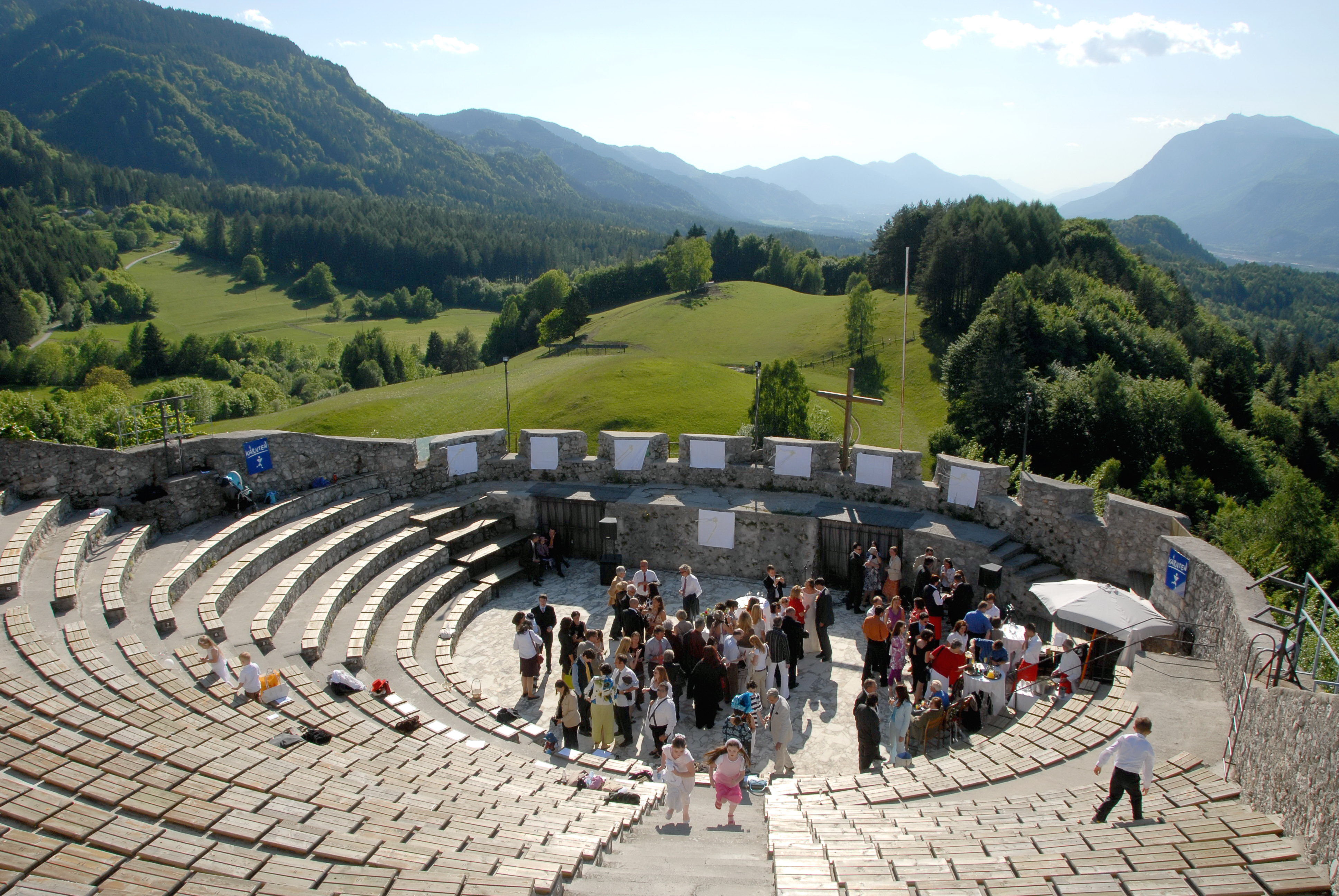 Arena in the castle-ruin old Finkenstein in Altfinkenstein #14, market town Finkenstein am Faaker See, district Villach Land, Carinthia, Austria, EU